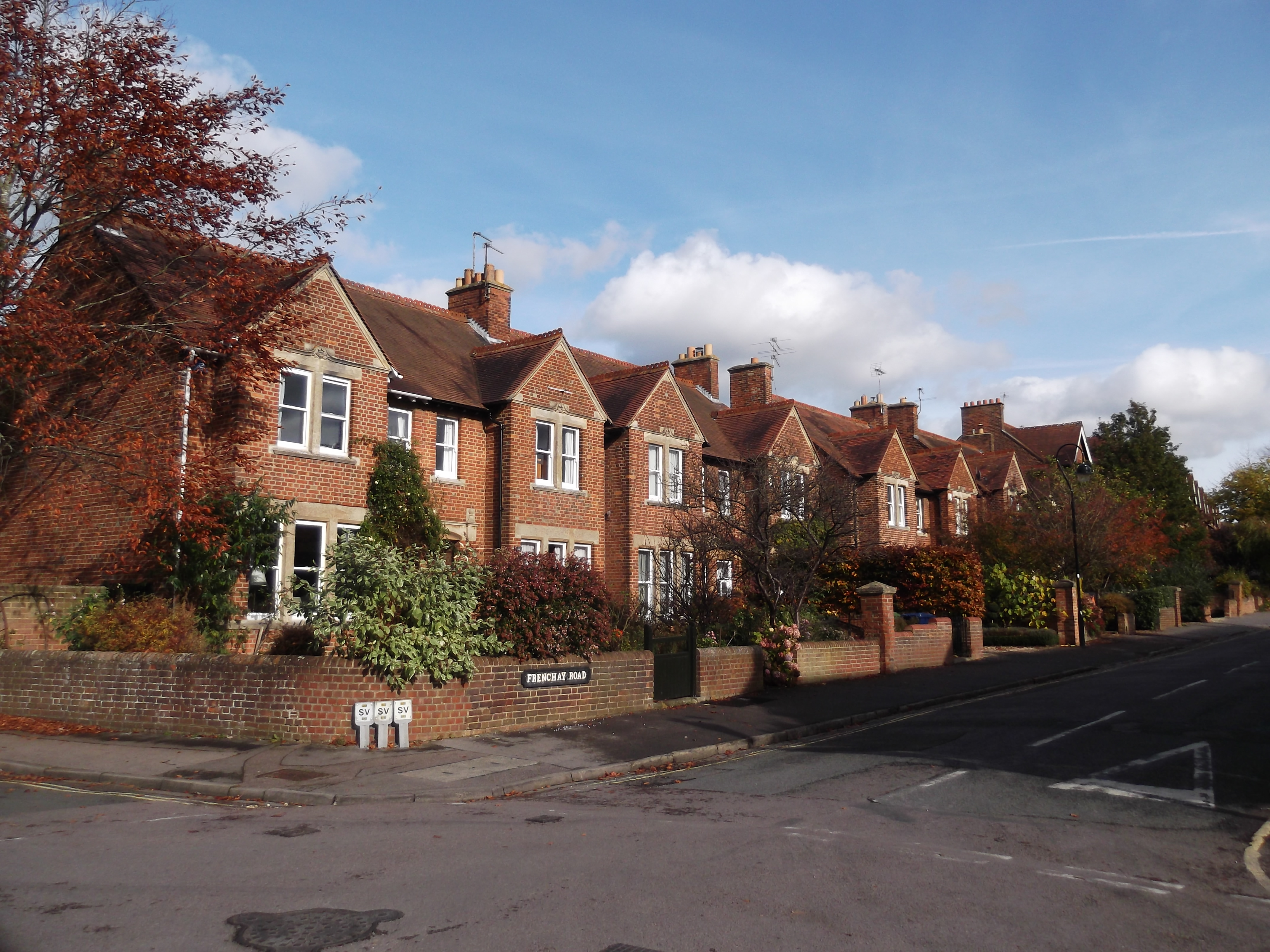 Street in north Oxford, England.